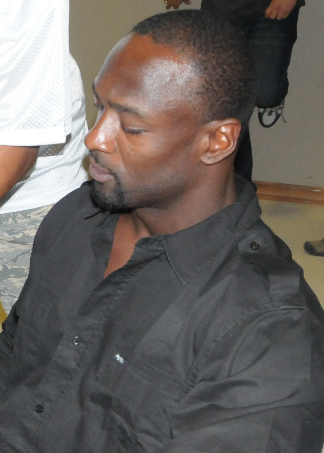 Tech. Sgt. Robert Cook, MC for the Tostitos “Salute the Troops” Bowl pep rally, get Jevon Kearse to sign a shirt Dec. 20 at Joint Base Balad, Iraq.